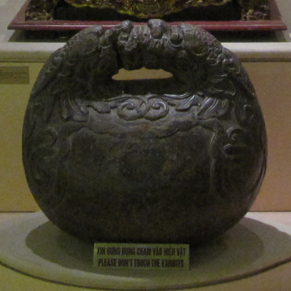 Wooden fish (mộc ngư) with handle in shape of dragon. Crimson and gilded wood, Nguyễn dynasty, 19th-early 20th century. Ritual use. National Museum of Vietnamese History, Hanoi.